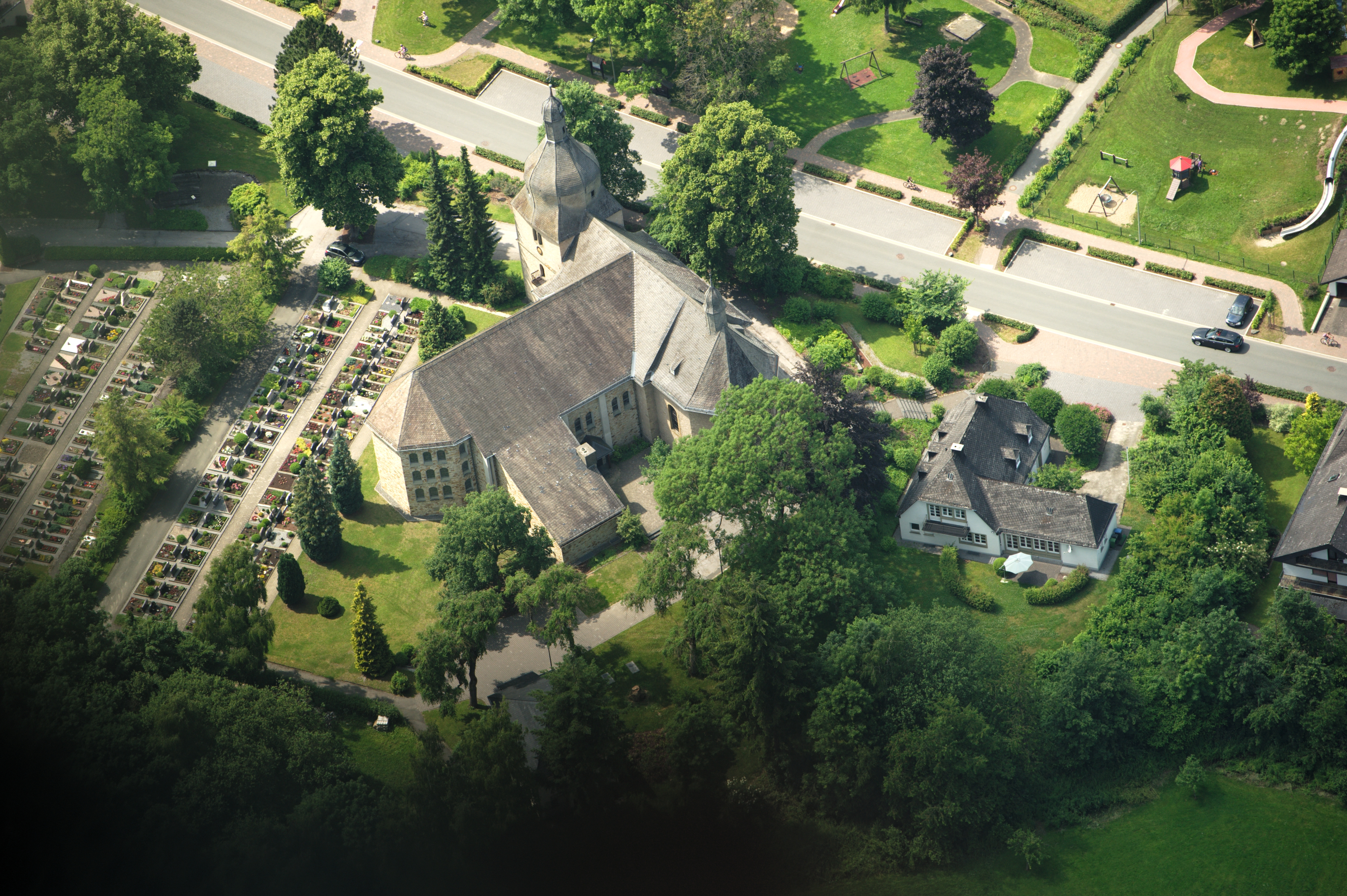 Fotoflug Sauerland-Ost: St. Ludgerus in Brilon-Alme. The making of this document was supported by the Community-Budget of Wikimedia Germany.